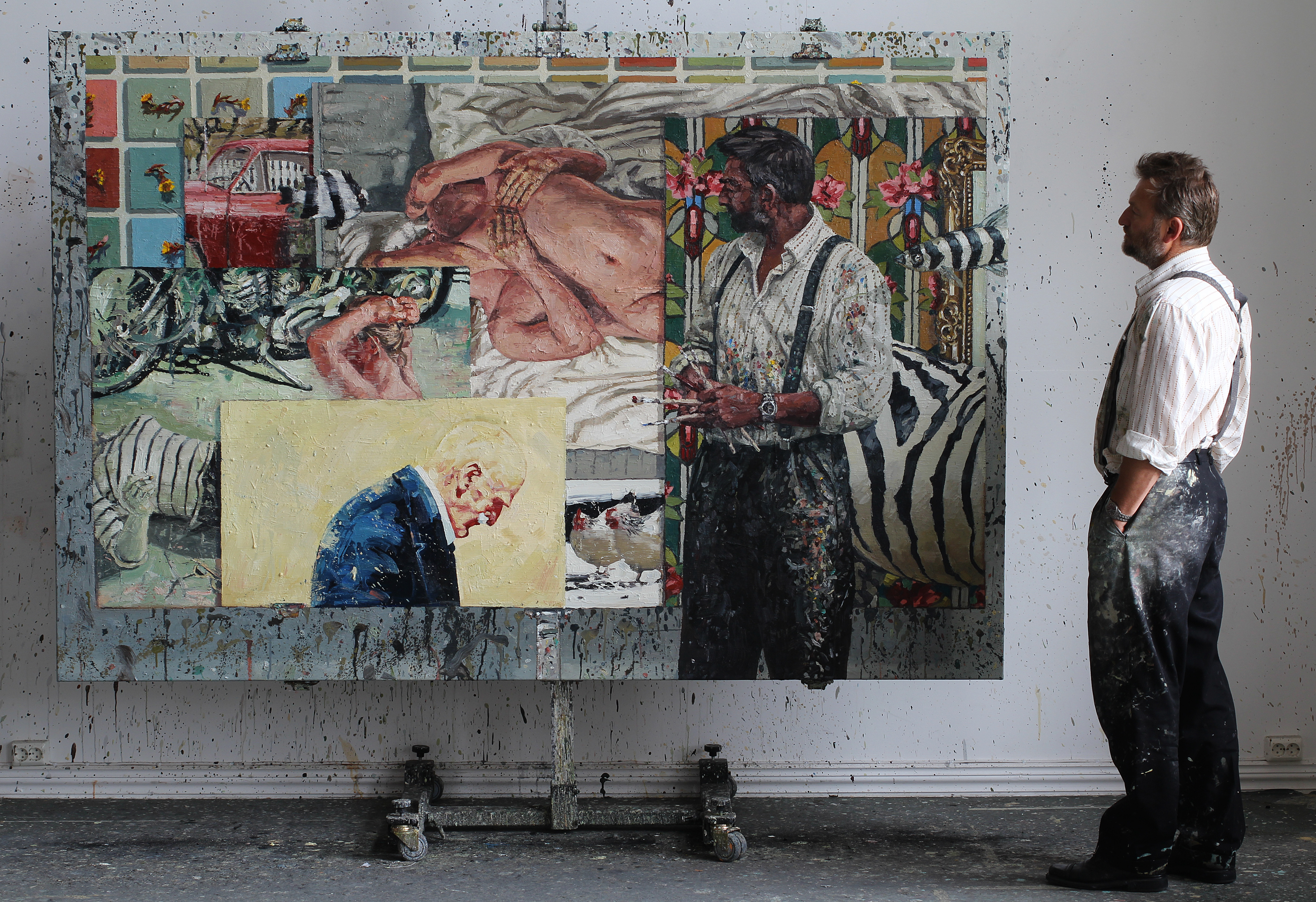 the painting (oil on canvas) "Natural selection" by the Norwegian painter Tor-Arne Moen. Size: 170x250 cm